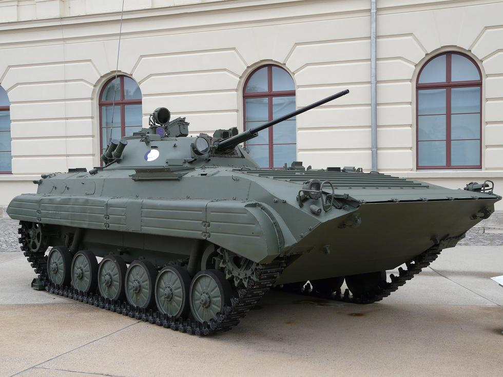 Infantry fighting vehicle (IFV), or mechanized infantry combat vehicle (MICV), amphibian, soviet production, type designation: BMP-2. Particularity: Basic armament of the Motorised Rifle Troops of the GDR National People`s Army Exhibition object: Bunbeswehr museum in Dresden, Germany.